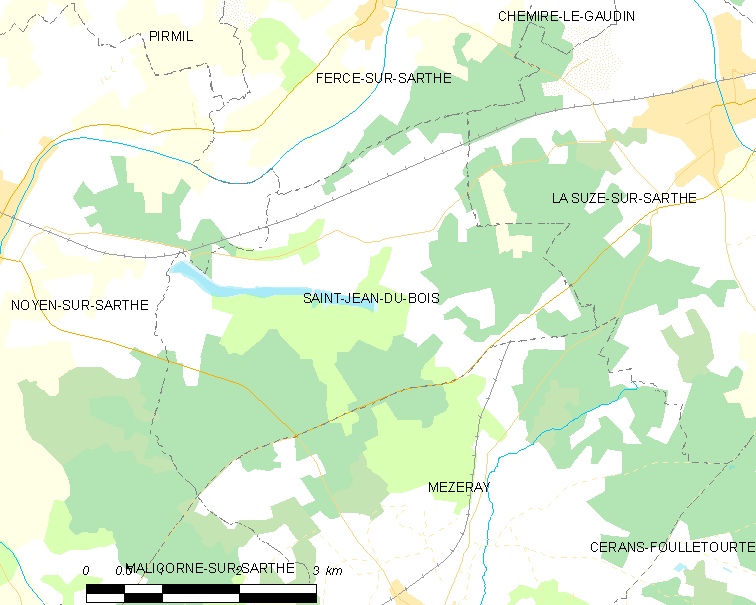 Map of French municipality